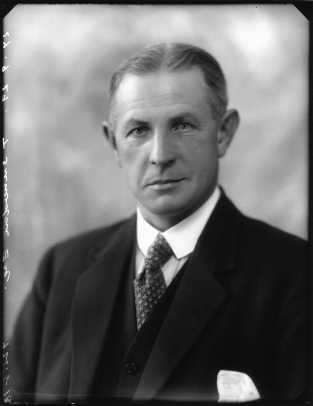 Tom Snowden